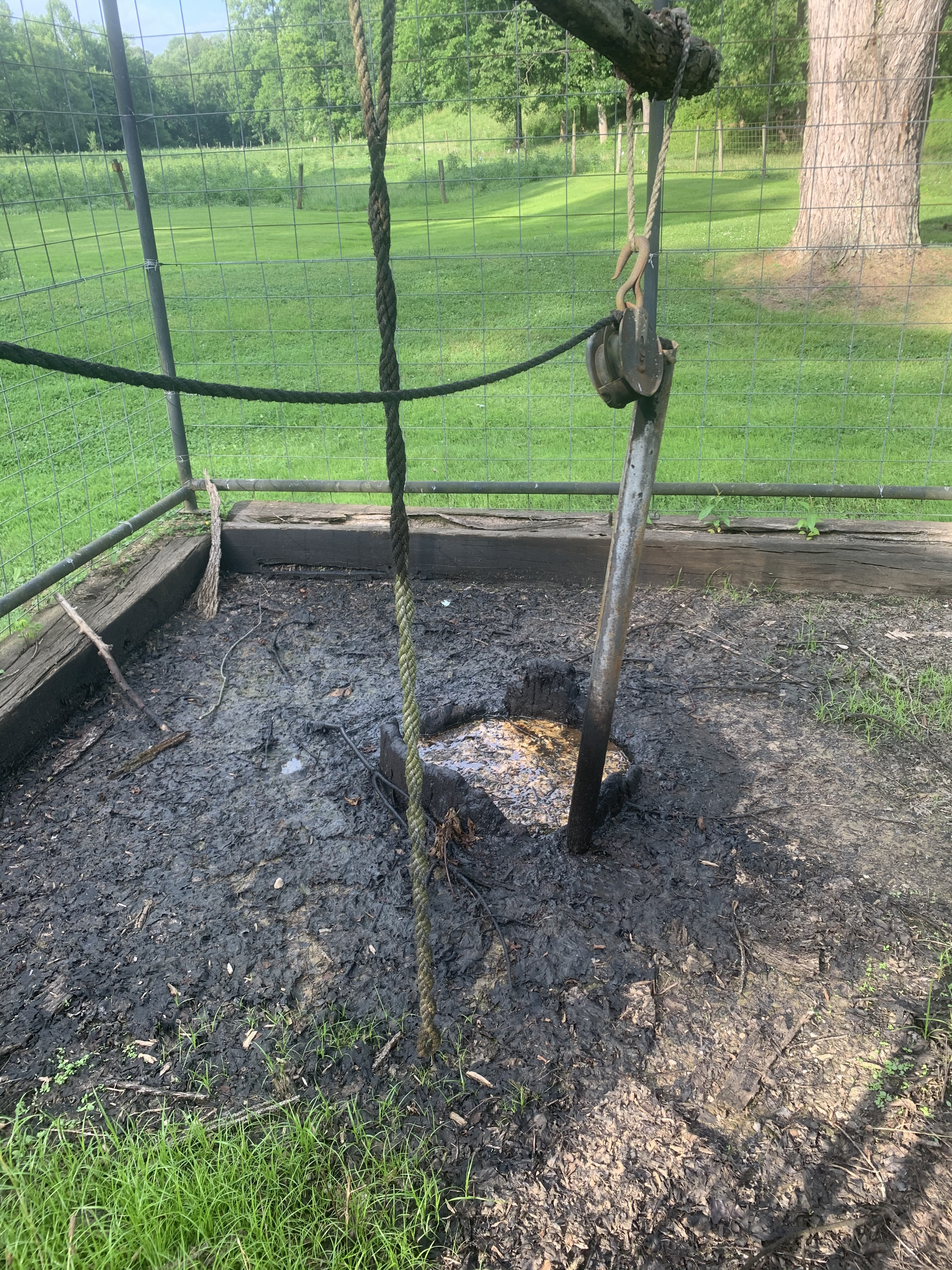 An image of the well as it appeared in 2020. Oil and brine may be seen seeping from the well-head.